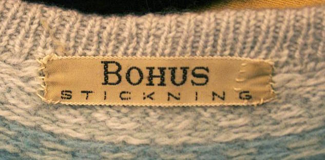 Bohus Stickning garment label